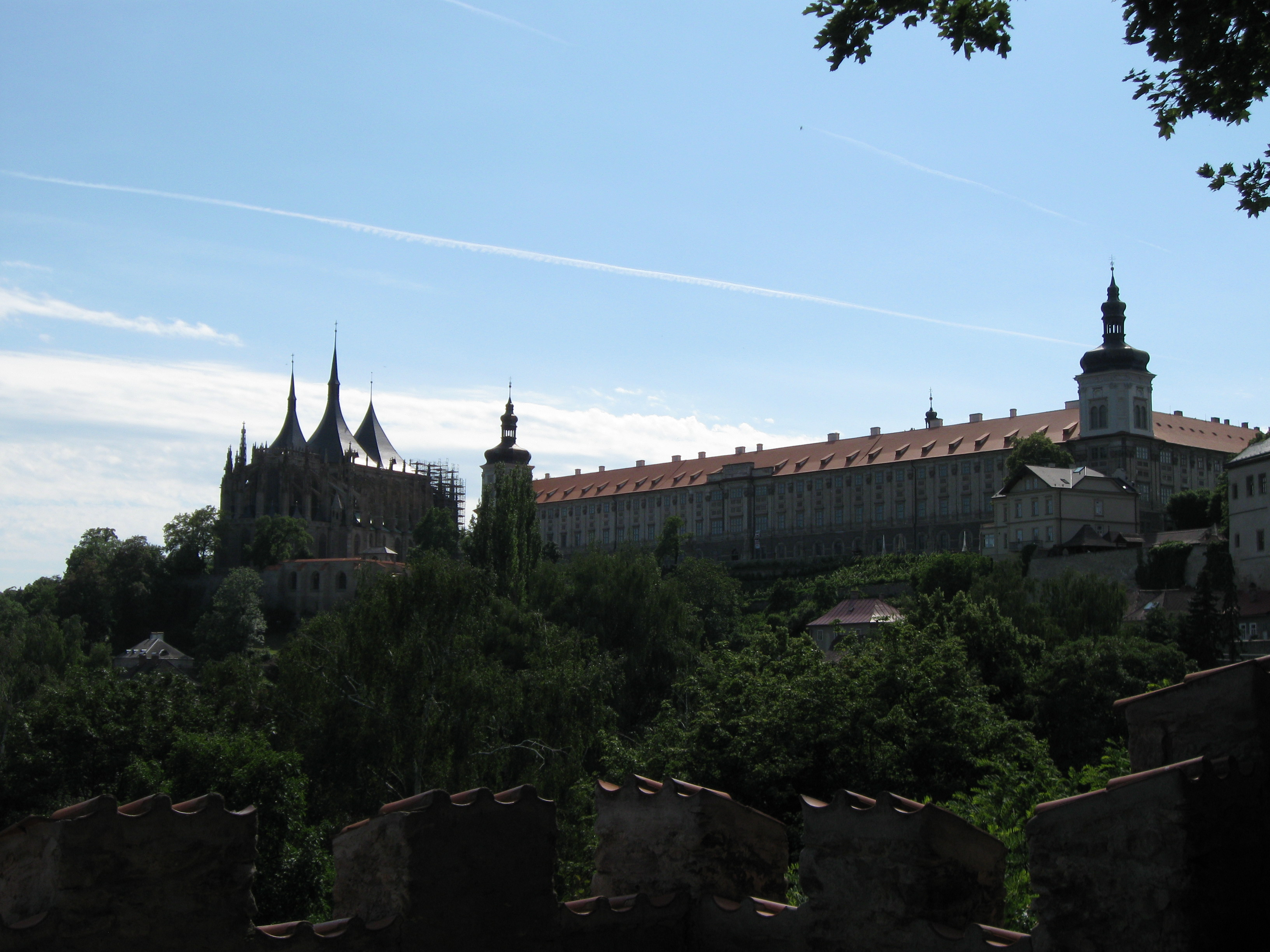 Kutná Hora, Czech Republic.